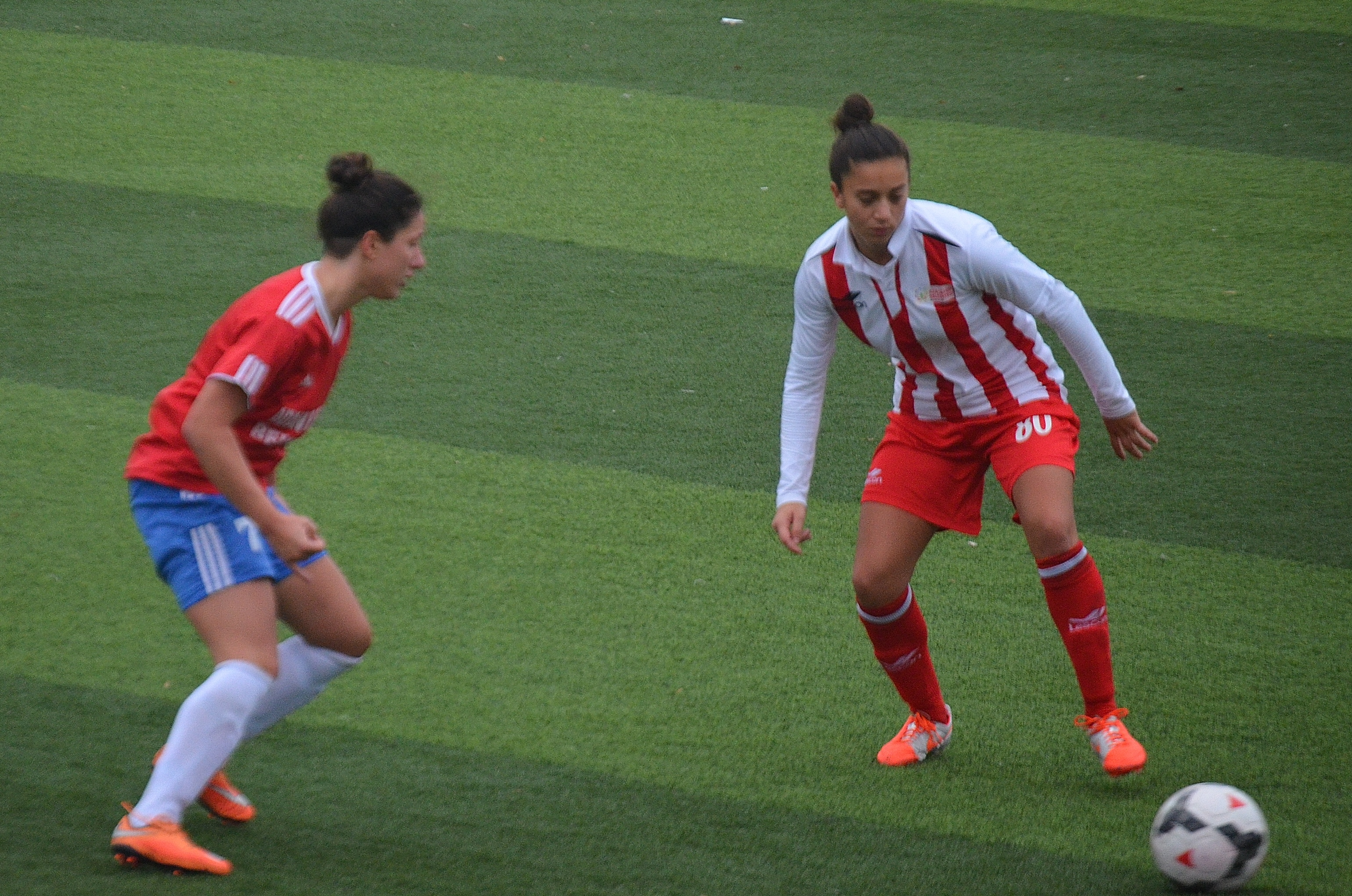 Emine Ecem esen for Ataşehir Belediyespor in the 2014-15 season